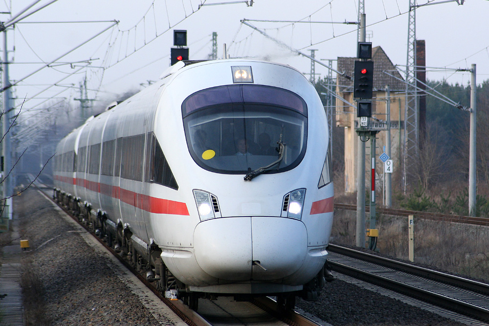 Two coupled ICE-TD from Denmark on the Berlin-Hamburg high-speed railway line, at Neustadt an der Dosse